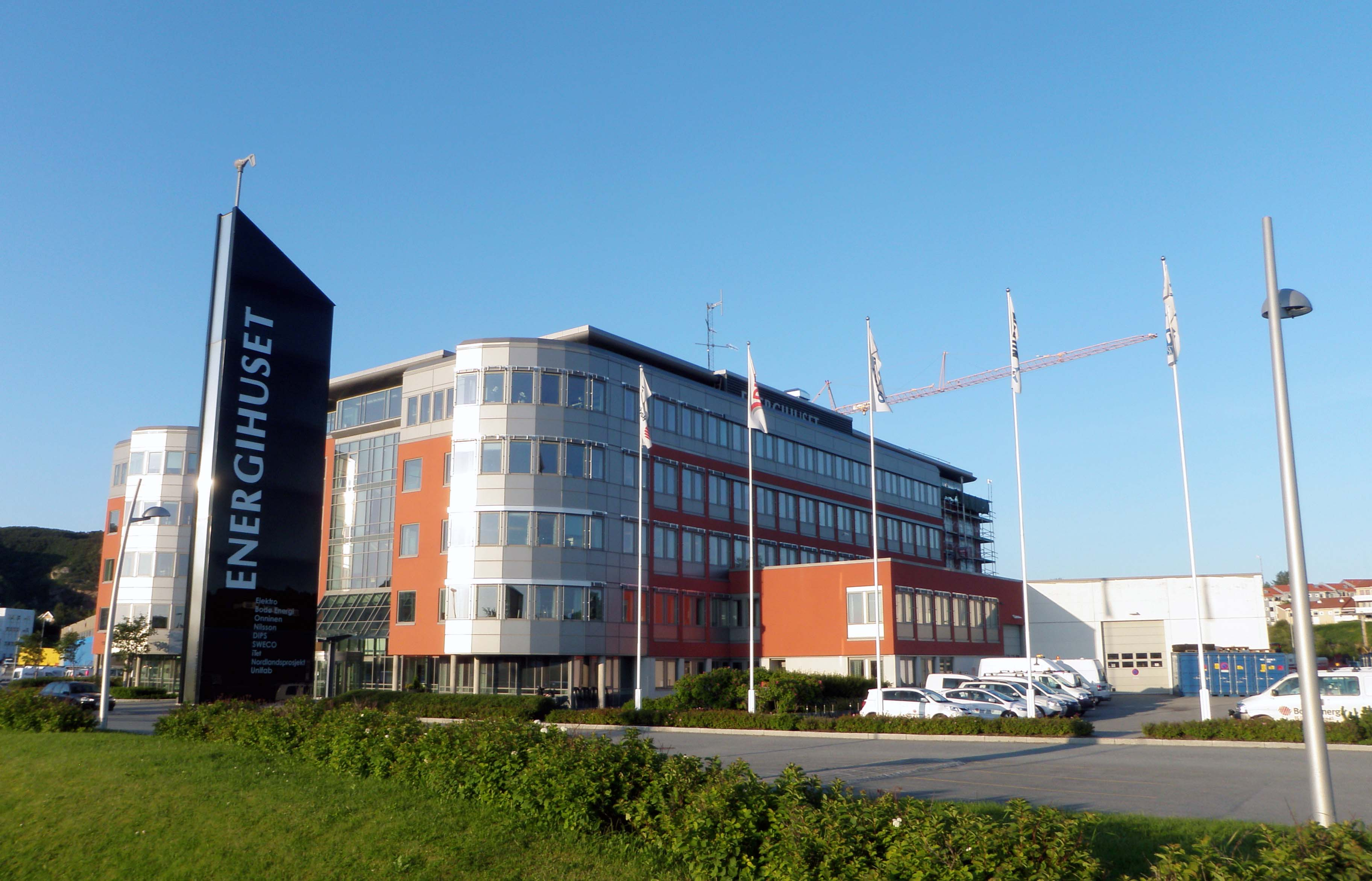 The office and business building Energihuset in Bodø, Nordland, Norway. Amongst other businesses, Energihuset houses the power company Bodø Energi